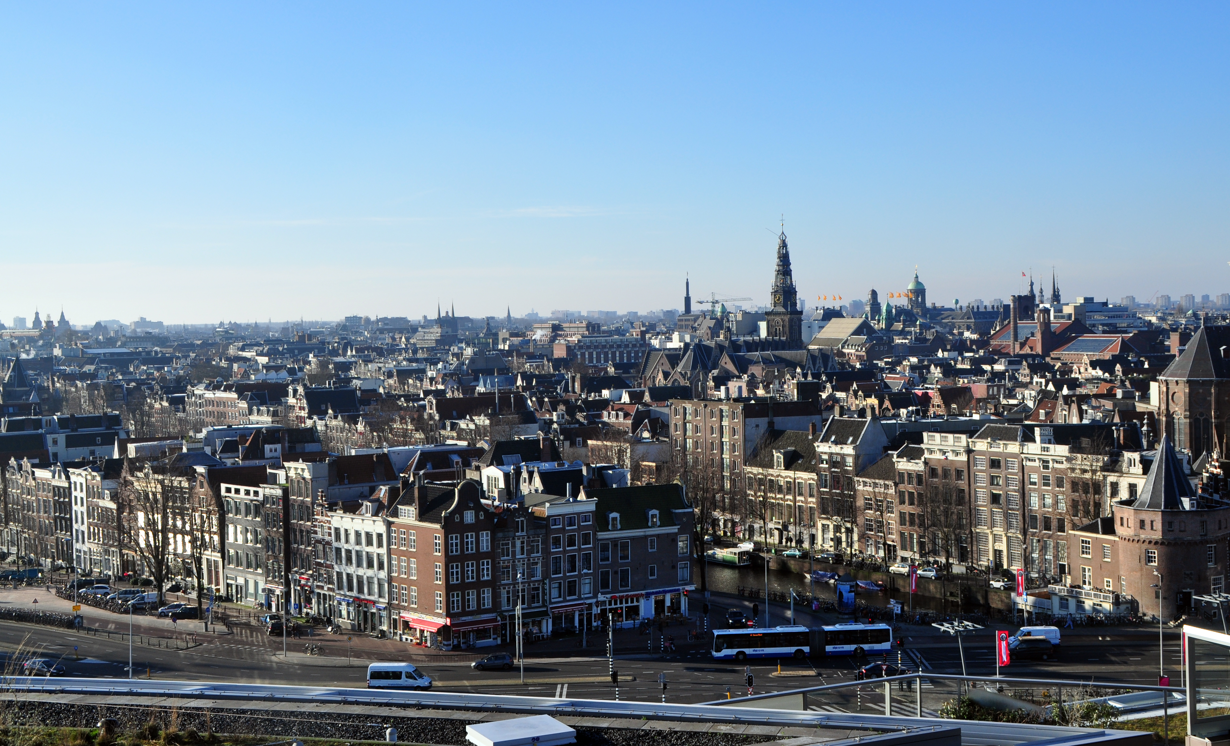 Skyline of Amsterdam